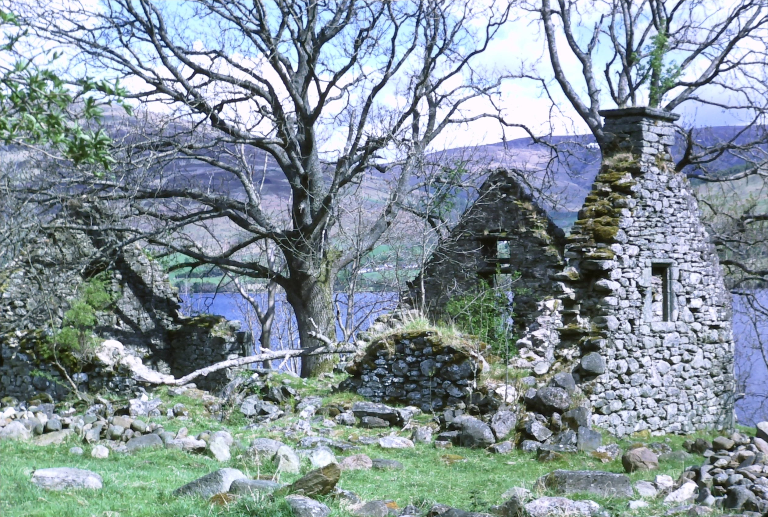 Ruined cottage in the deserted village of Lawers below Ben Lawers on the north side of Loch Tay, Perthshire. The area was affected by the so-called "Breadalbane Clearances" of the 1840s.